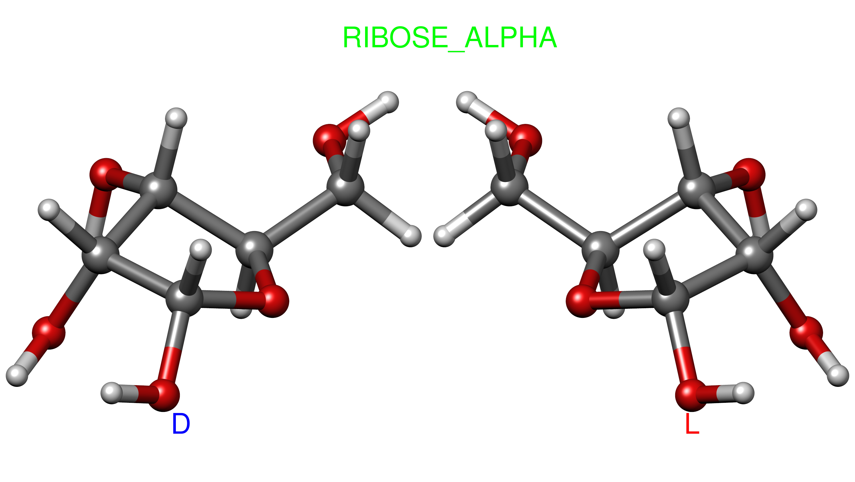 Ball-and-stick model of Alpha-ribose(D, L)